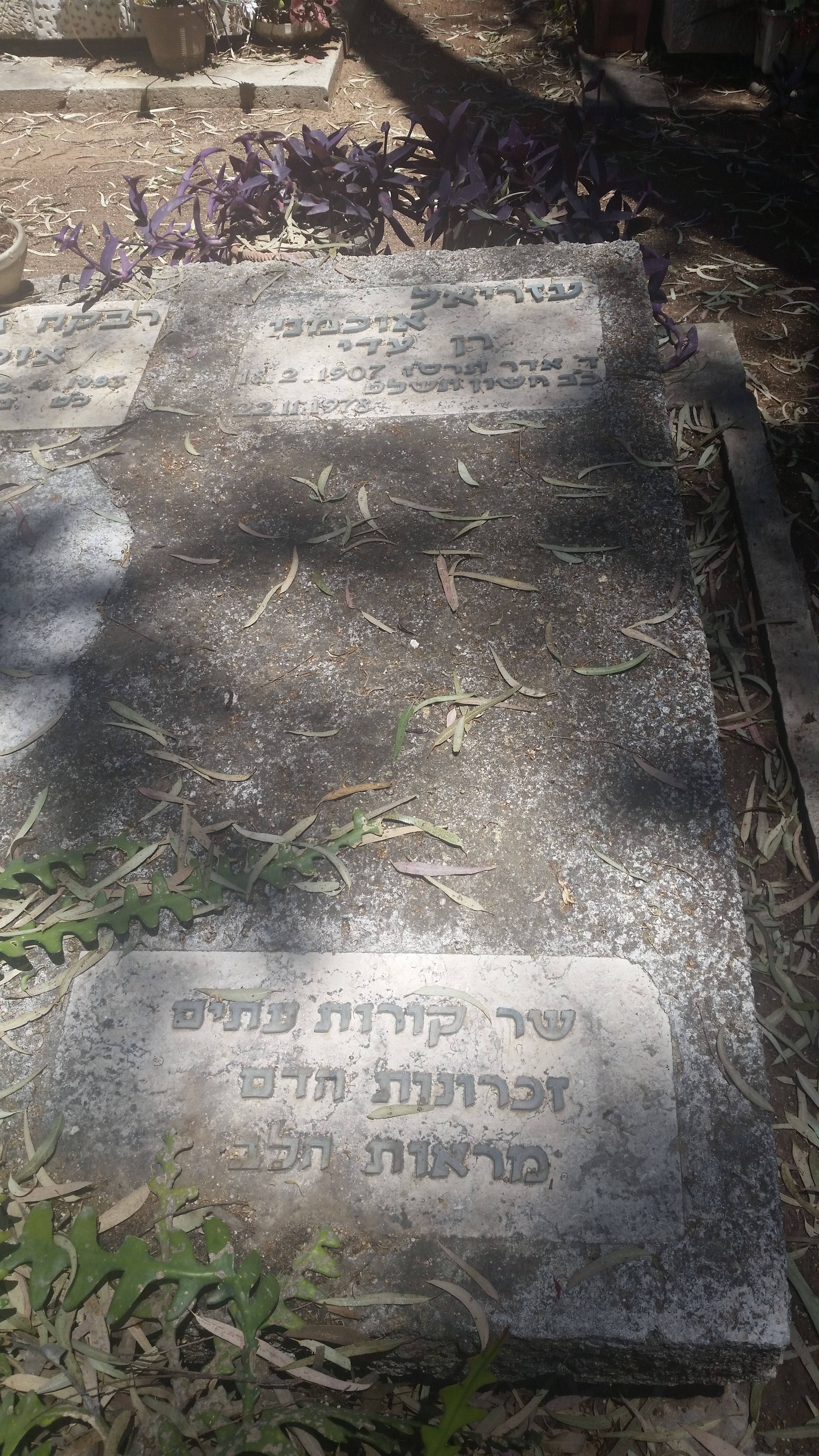 The Tomb of Azriel Ochmani In the cemetery at Kibbutz Ein Shemer, the inscription on the stone reads: Sings the Happenings of time The Memories of blood The things the Heart had seen